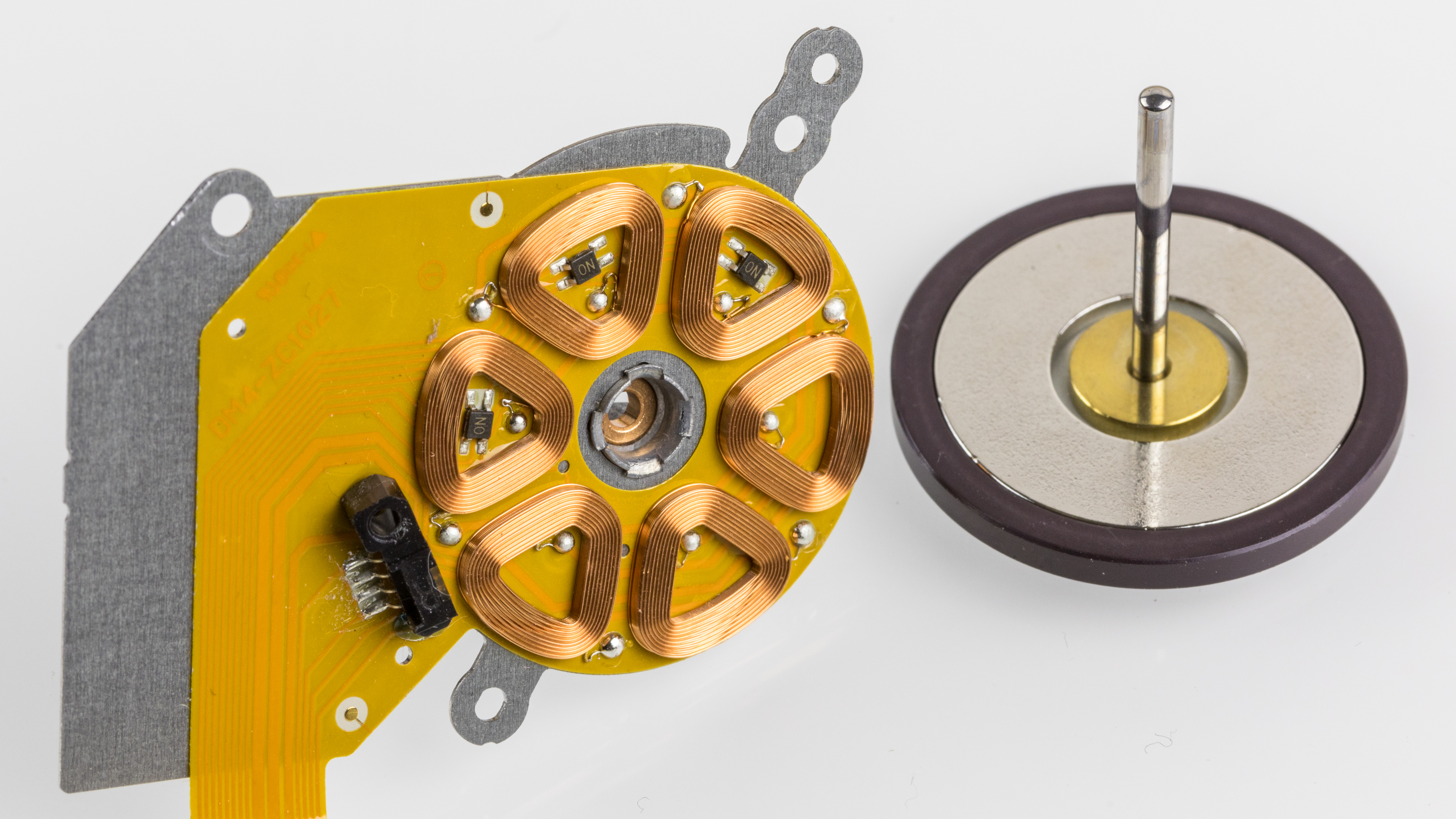 HP StorageWorks DAT 72 USB - Tape Drive Capstans, driven by a brushless DC electric motor